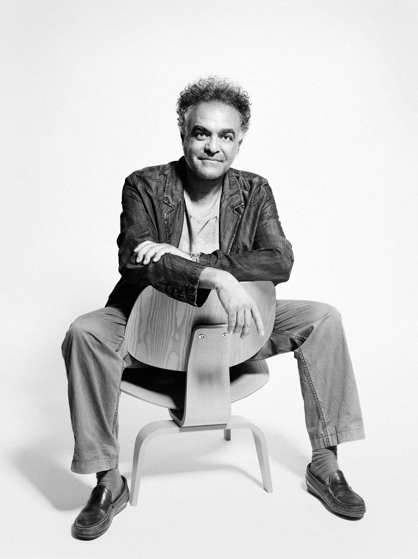 Portrait of Nadim Karam, founder of Atelier Hapsitus